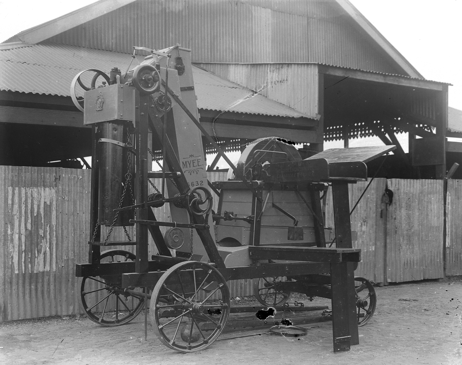 a collection of historical pictures in the Public Domain from the Powerhouse Museum.